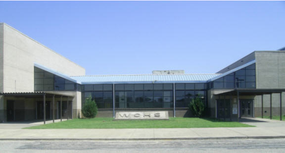 Wilcox-Central Building